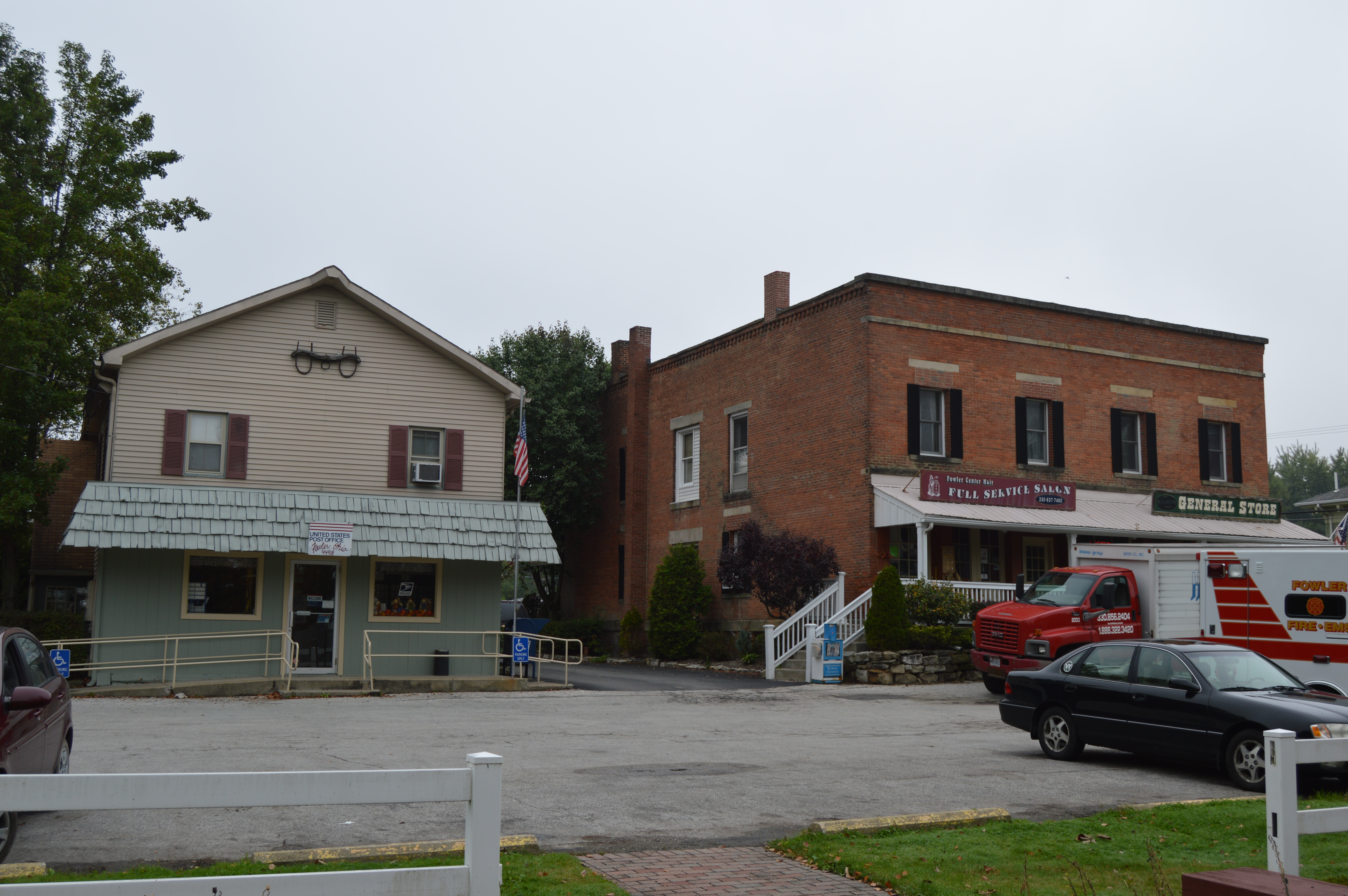 Buildings on the western side of the town green in Fowler Township, Trumbull County, Ohio, United States, at the junction of State Routes 193 and 305. At right is the general store, built 1864, and at left is the post office. These buildings and their neighbors have been designated a historic district, the Fowler Center Historic District, and listed on the National Register of Historic Places.